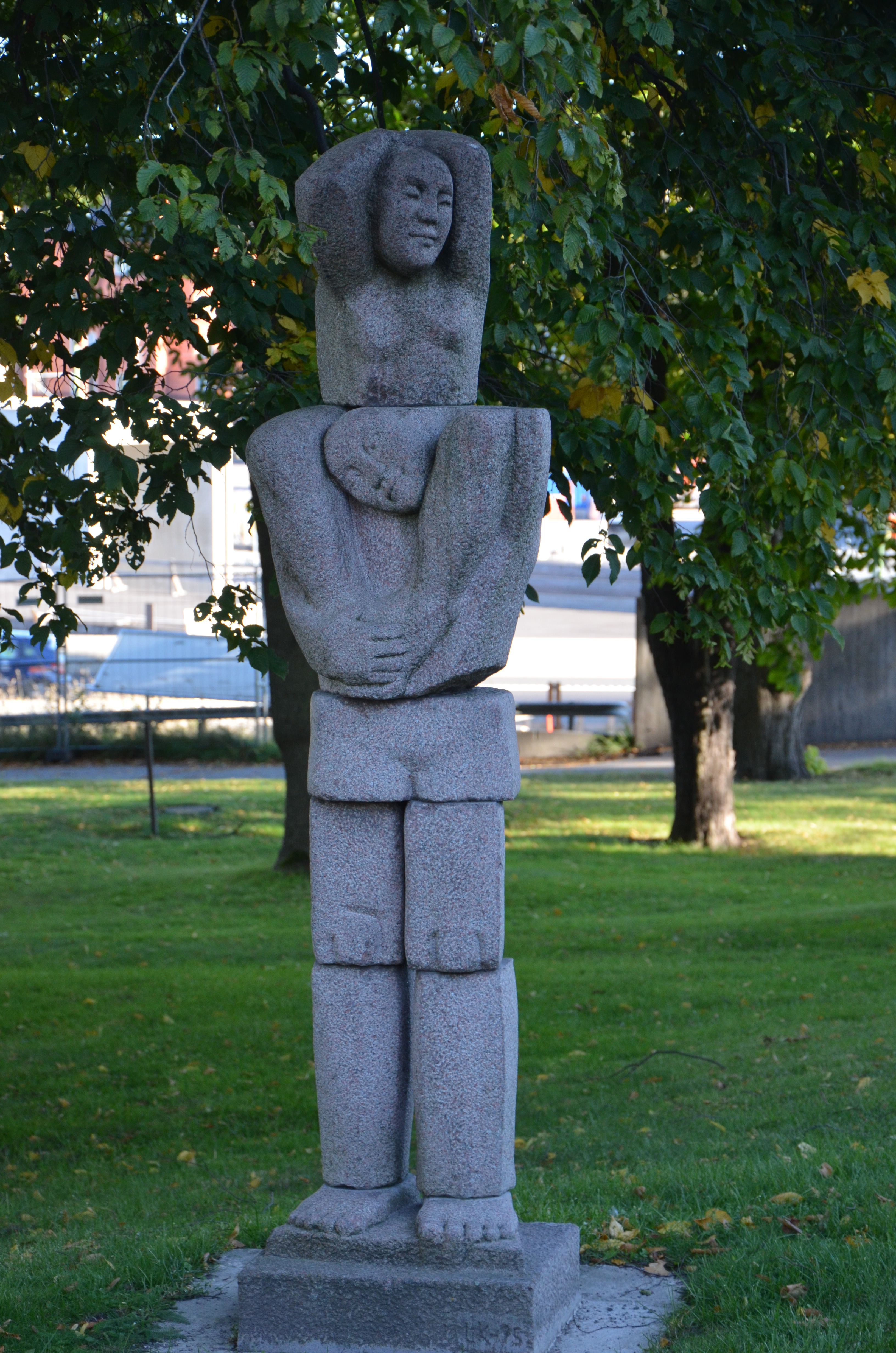 Len Kriströms På axlarna, utanför Eugeniashemmet i Solna, granit, 1995